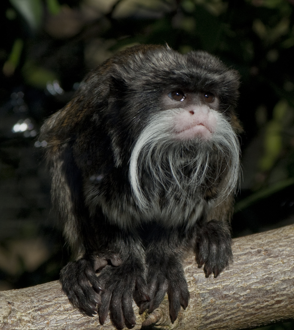 Emperor Tamarin monkey at Belfast Zoo